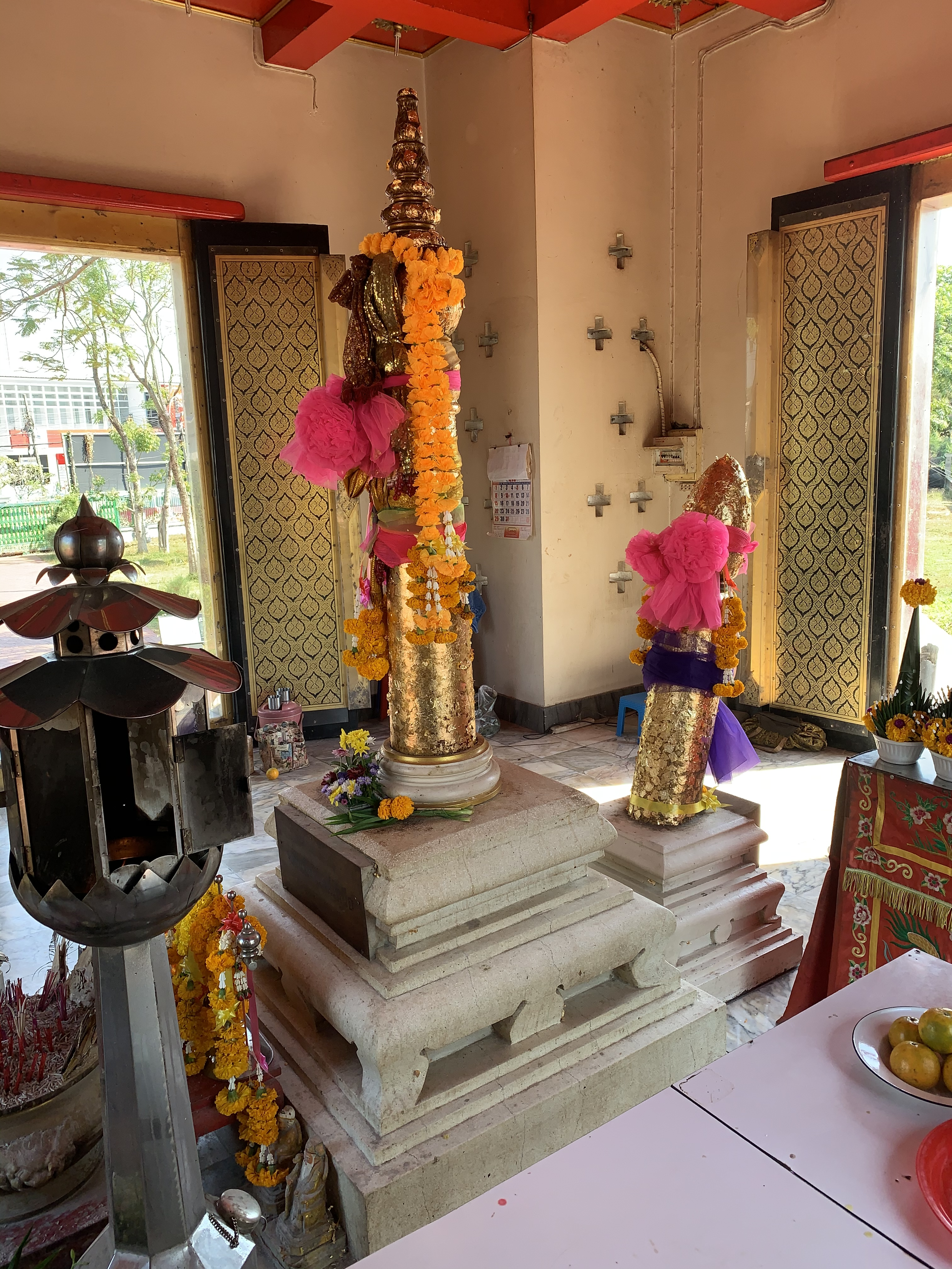 Nakhon Nayok City Pillar Shrine